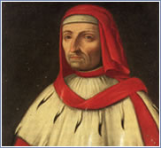 Alberico da Rosciate, italian jurist (1290-1354)